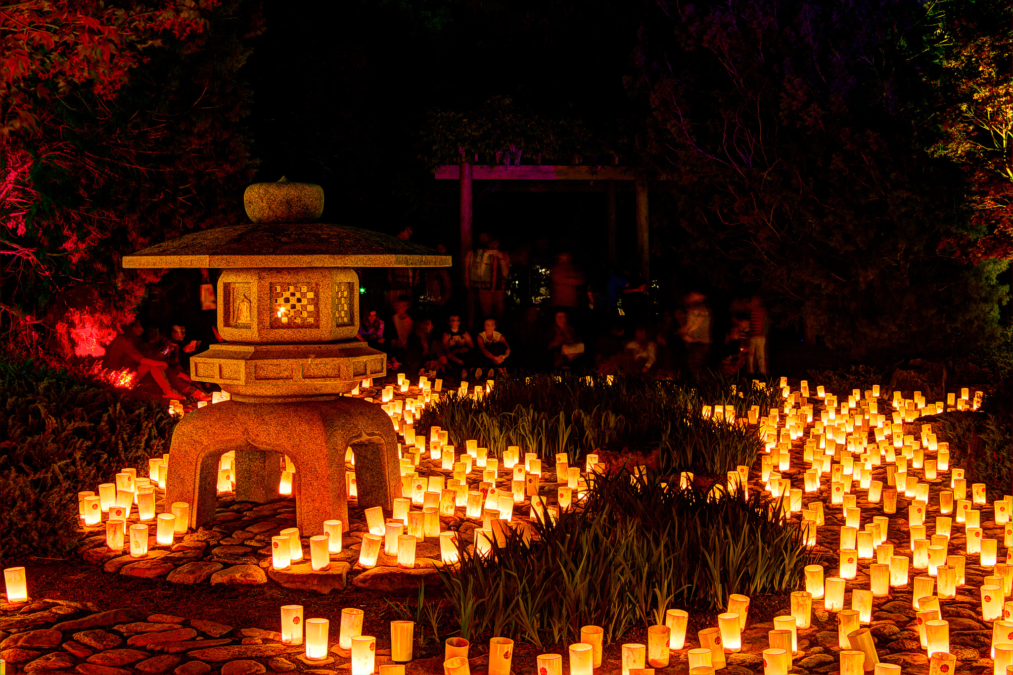 500px provided description: A garden of candles at Nowra Peace Park [#park ,#landscape ,#hdr ,#people ,#orange ,#peace ,#festival ,#candles ,#lanterns ,#illumination ,#japanese ,#Night ,#Lights]